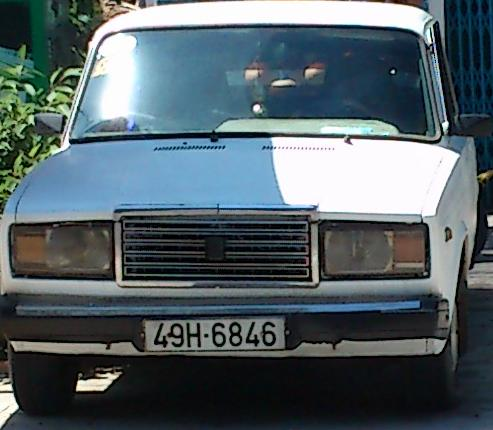 VAZ / Lada 2107 with license plate from Vietnam